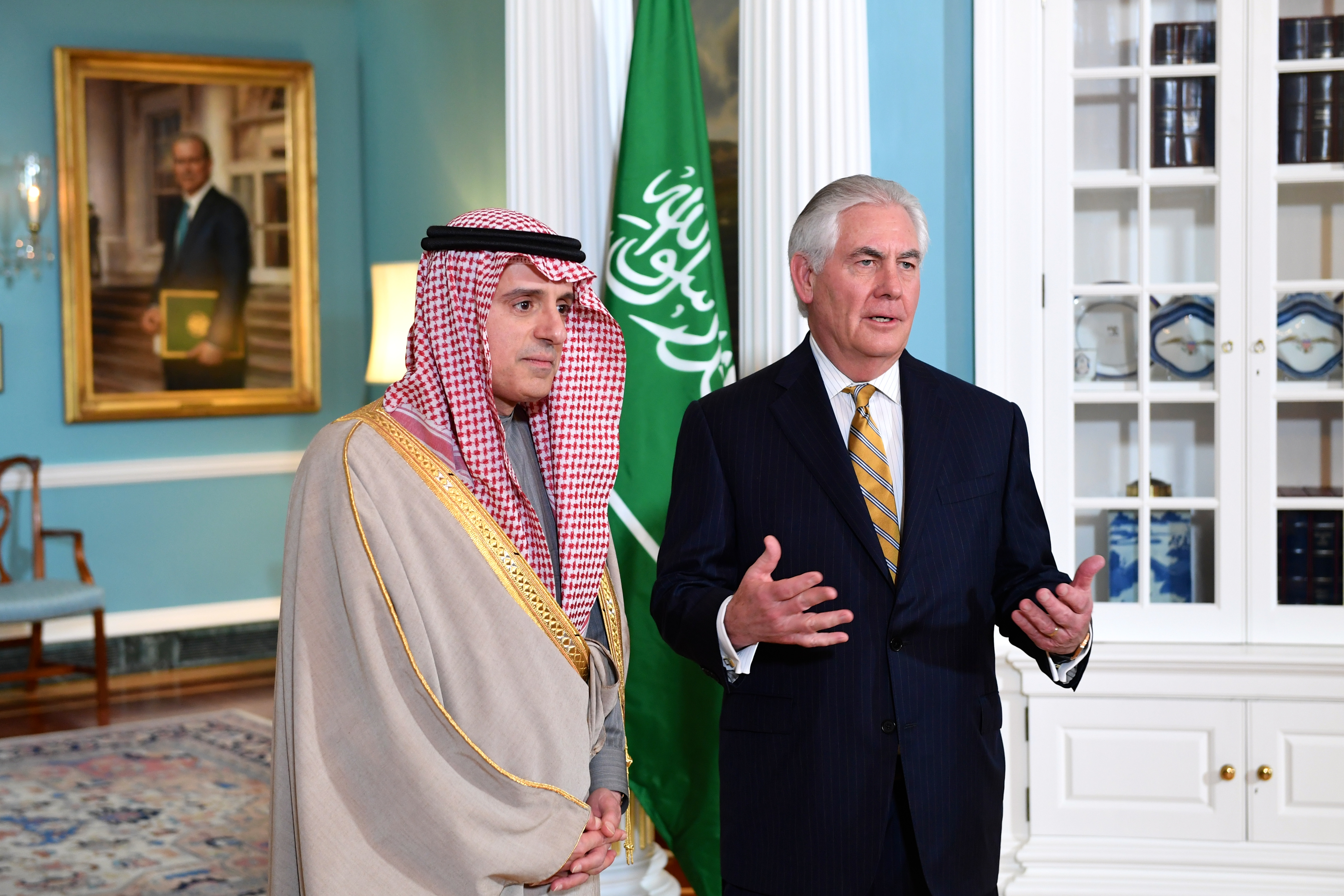 U.S. Secretary of State Rex Tillerson and Saudi Foreign Minister Adel Al-Jubeir address reporters at the U.S. Department of State in Washington, D.C. on March 23, 2017. [State Department Photo/ Public Domain]